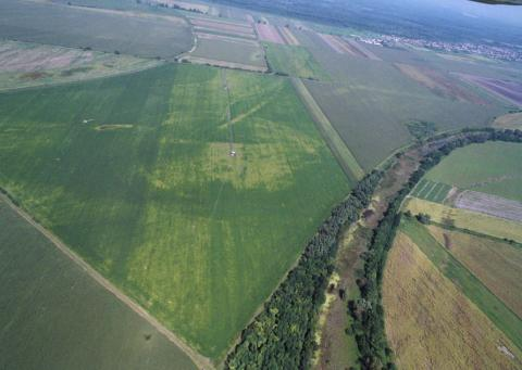 Szeremle, Hungary, aerialphotography